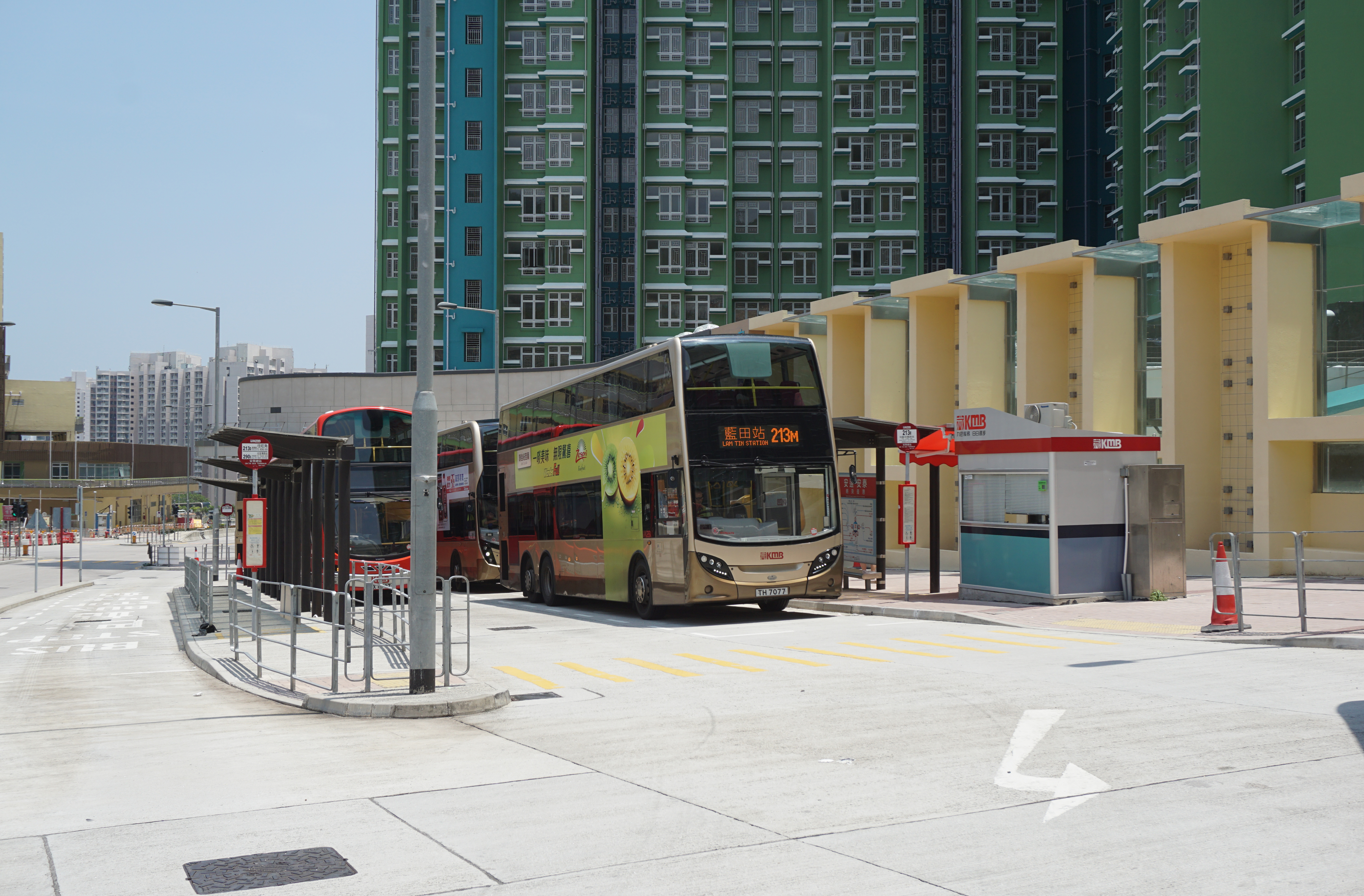 On Tai Bus Terminus in Sau Mau Ping, Hong Kong.